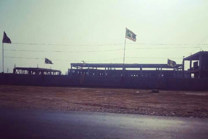 I also Uploaded this Photo on Botala Facebook Page & on website